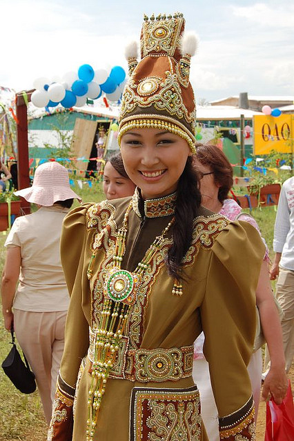 Sakha woman in Yakutsk posing in folk costume.